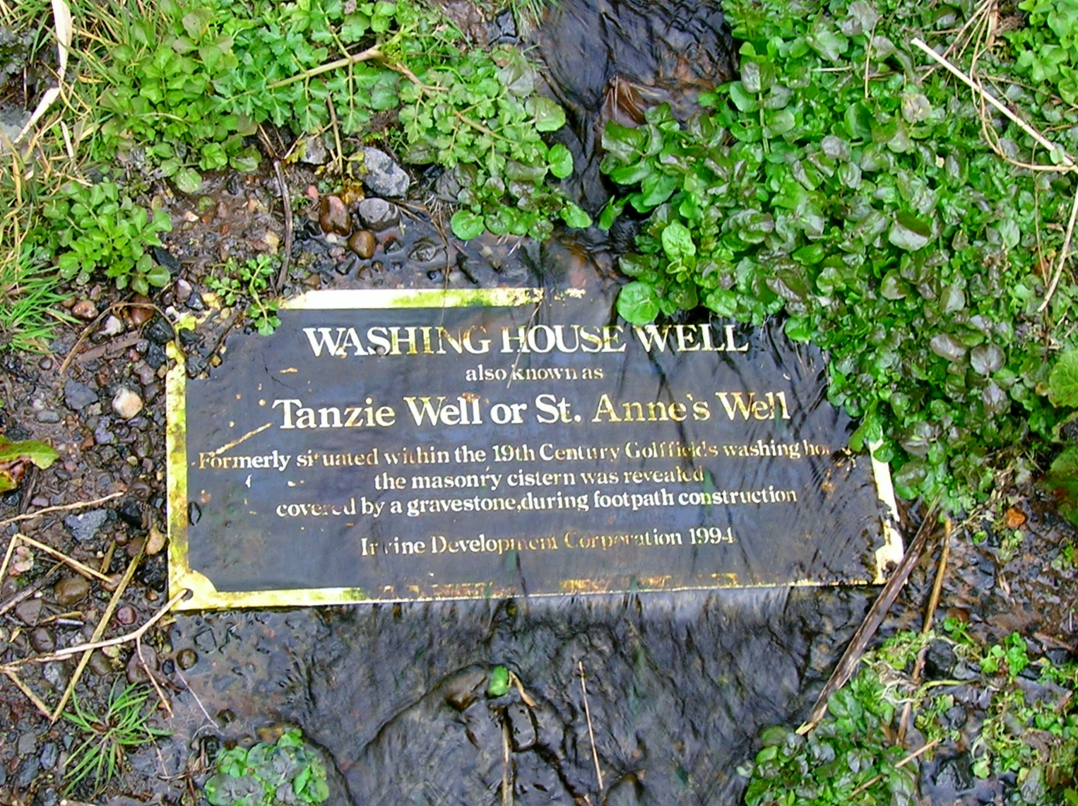 Tanzie Well also known as St Anne's or the Washing House Well, Irvine, North Ayrshire, Scotland.